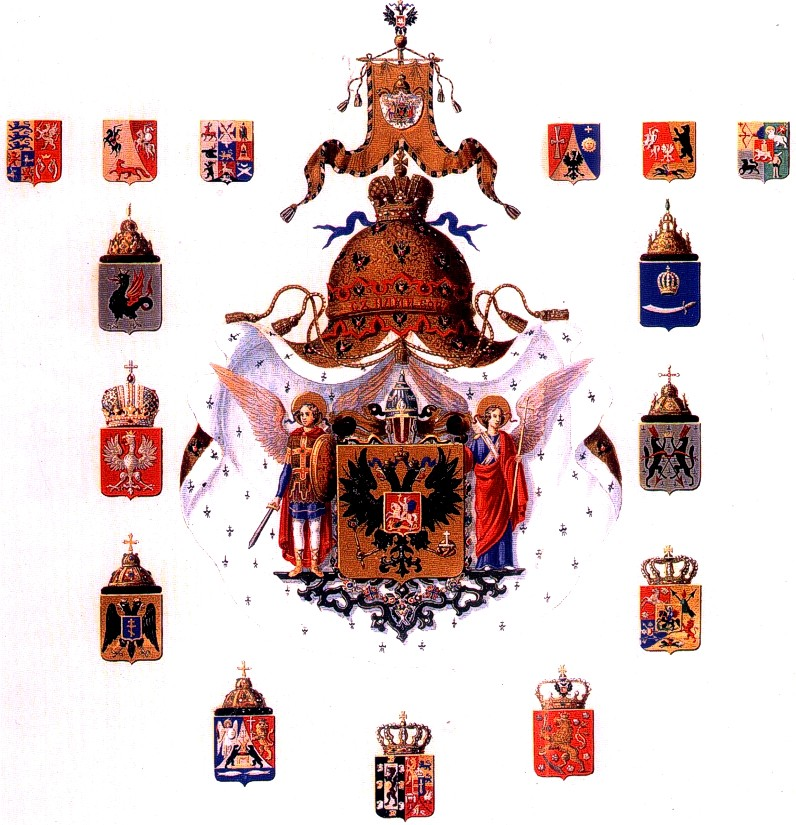 Coat of arms of the Russian Empire, developed by Bernard von Koehne